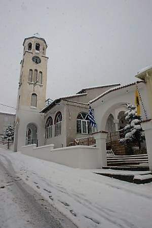 This is the church of Aghia Kyriake in the town of Servia, Kozani, Greece.